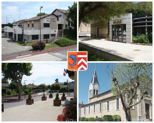 Pusignan, france Town picture